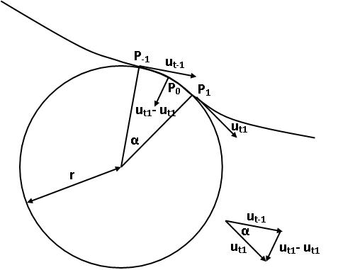 Drawing to explain the derivative of the unitary vector tangent to a trajectory